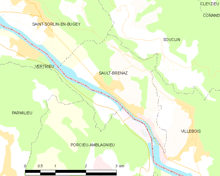 Map of French commune: Sault-Brénaz Map commune FR insee code 01396.png